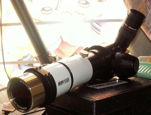 Oldfield is the original author, it's about an amateur solar telescope.